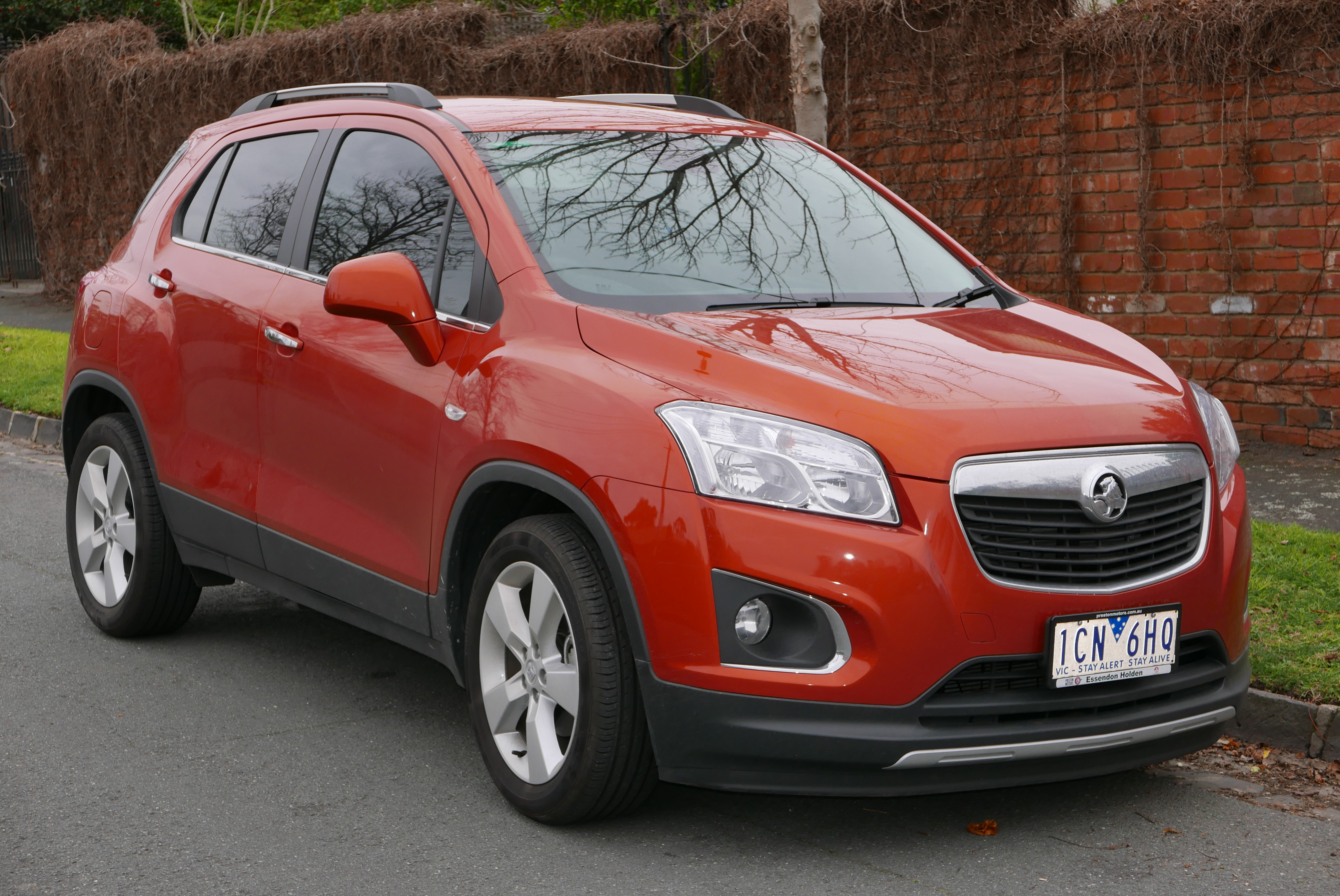 2014 Holden Trax (TJ MY14) LTZ wagon. Photographed in Kew, Victoria, Australia. Vehicle registration enquiry resultsJurisdictionVictoriaRegistration1CN6HQChassis codeKL3BA7659EB660017Engine codeF18D4140200707Compliance date2014-06Year of manufacture2014